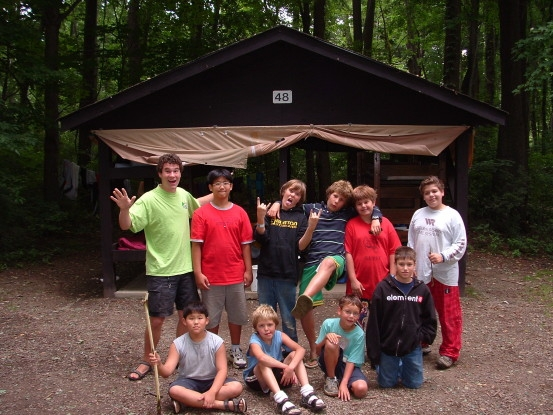 shows ckondas as Cabent Counselor